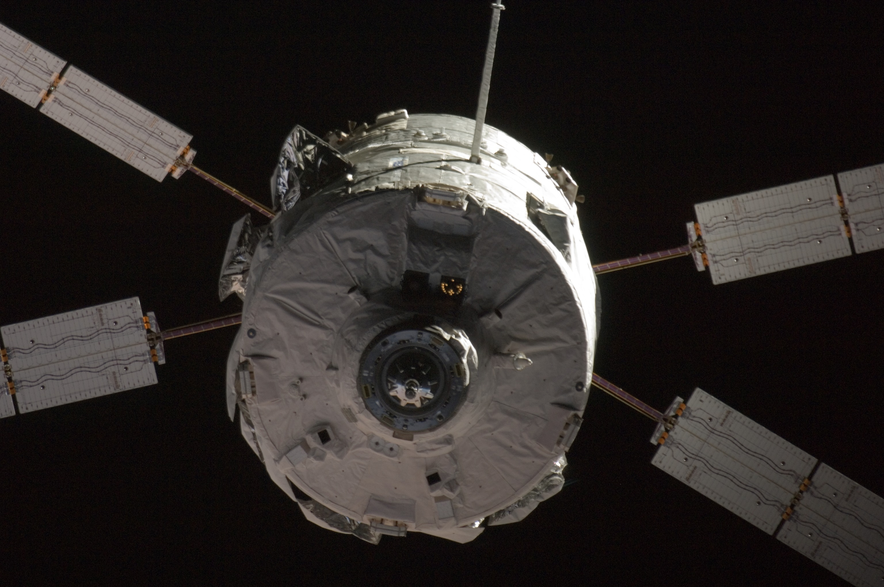 ISS016-E-034176 (31 March 2008) --- Backdropped by the blackness of space, the Jules Verne Automated Transfer Vehicle (ATV) approaches the International Space Station on Monday, March 31, 2008, for its "Demo Day 2" practice maneuvers. It moved to within 36 feet (11 m) of the Zvezda Service Module in a rehearsal for docking on Thursday.